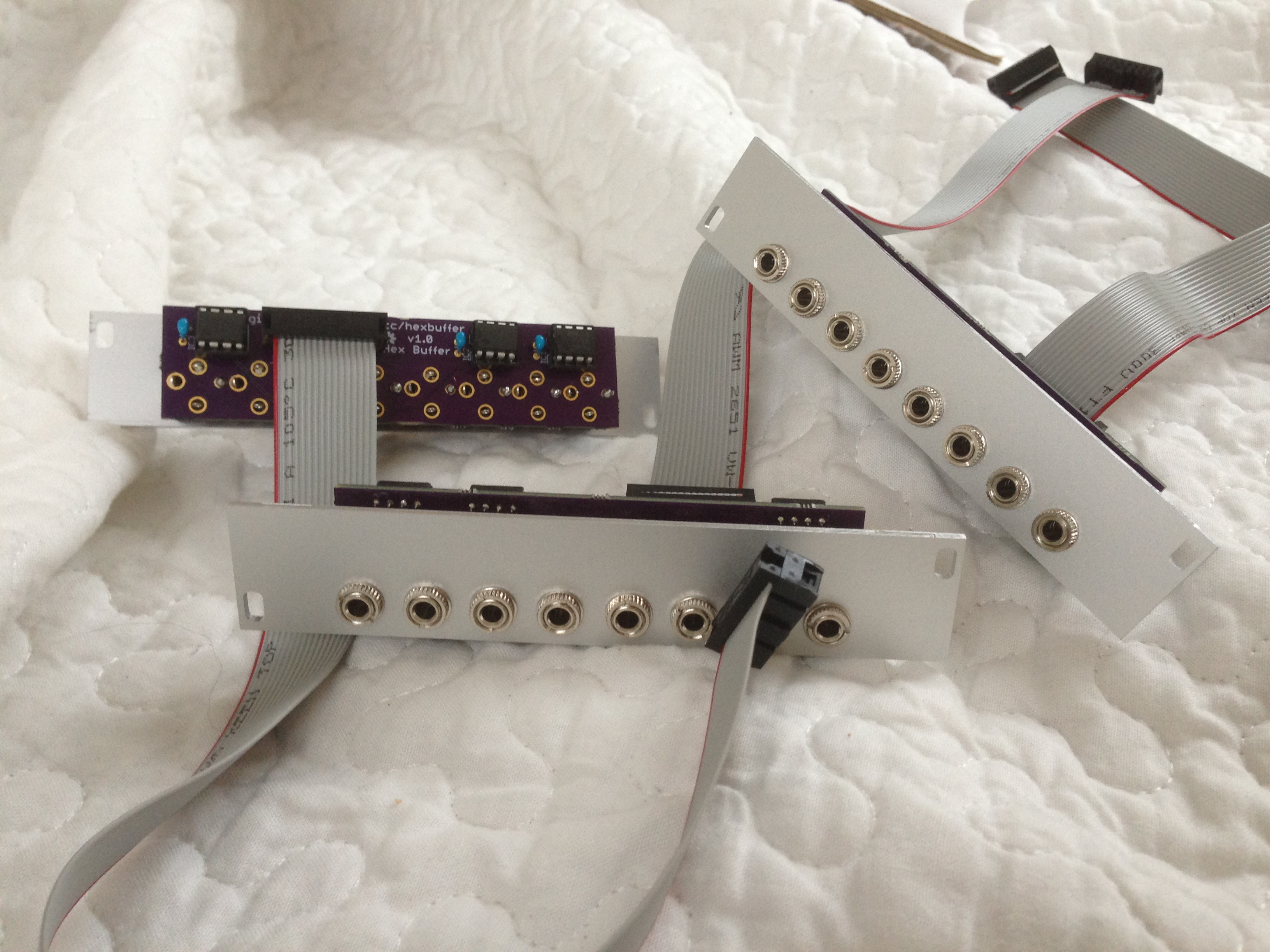 Three buffered mults. Made up a front panel design and fortunately it all fitted beautifully. Now I can easily distribute audio and control signals as parallel branches. Might make some more if I make a second rack for 2015...